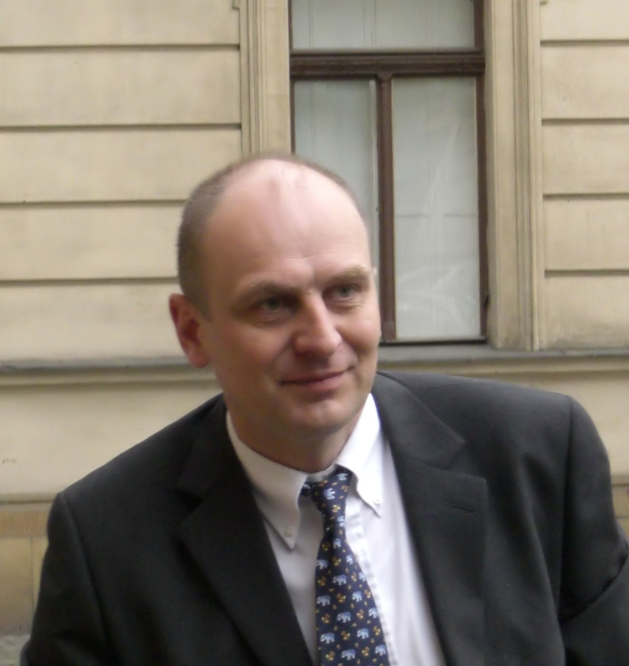 Minister Petr Gandalovič of the Czech government before session, Czech Republic.